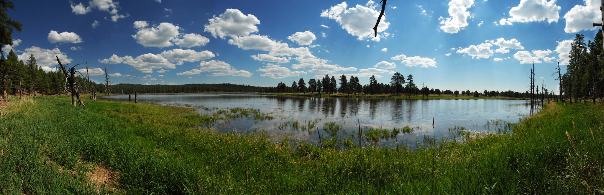 Panoramic photo of Scholz Lake on the Williams Ranger District. Please give credit to: U.S. Forest Service, Southwestern Region, Kaibab National Forest.